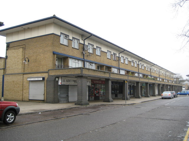 Queens Square, shopping parade in Adeyfield , Hemel Hempstead, built as part of the New Town development and opend by Queen Elizabeth II in 1954. Adeyfield: The Queen's Square